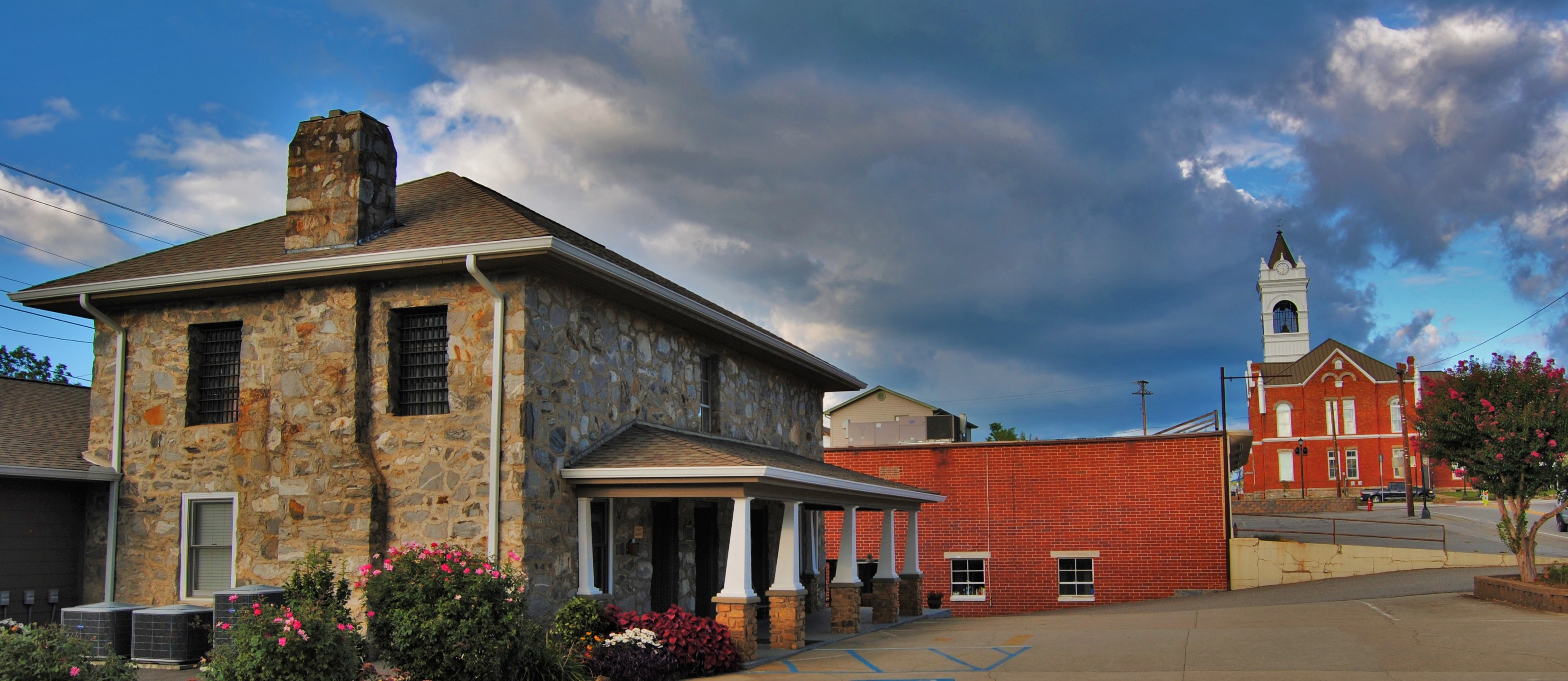 Old Union County Jail, Blue Ridge Rd. Blairsville